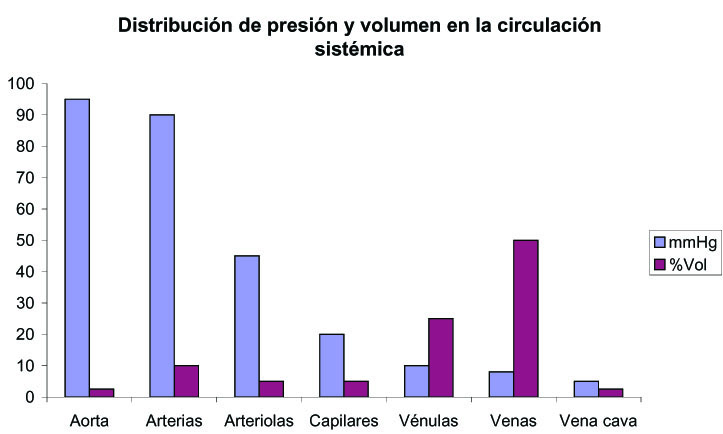 Distribution of pressures and volumes in the systemic circulation. Most of the volume is found within veins and venules, whereas the greatest drop in pressure occurs in small arteries and arterioles.